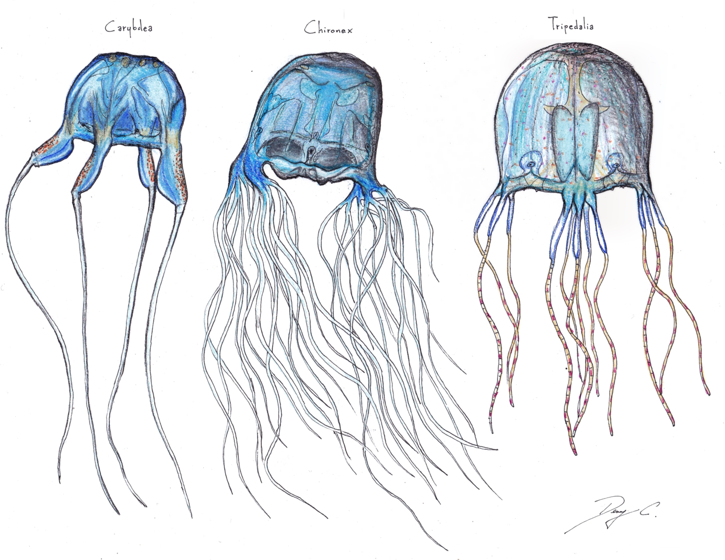 Graphic illustration comparing three typical cubozoan bauplans